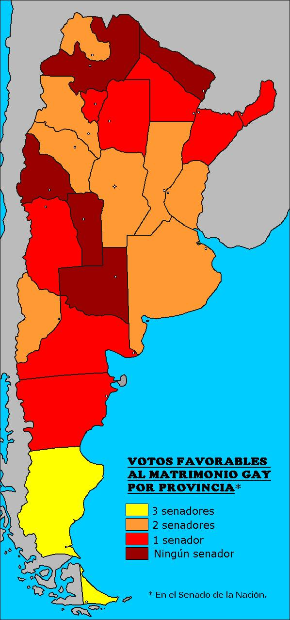 Votes, gay marriage, Argentina, parlamentary